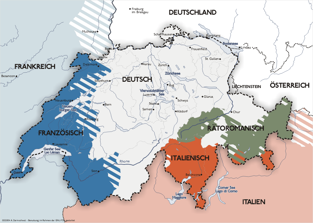 Illustration showing the distribution of languages in Switzerland.